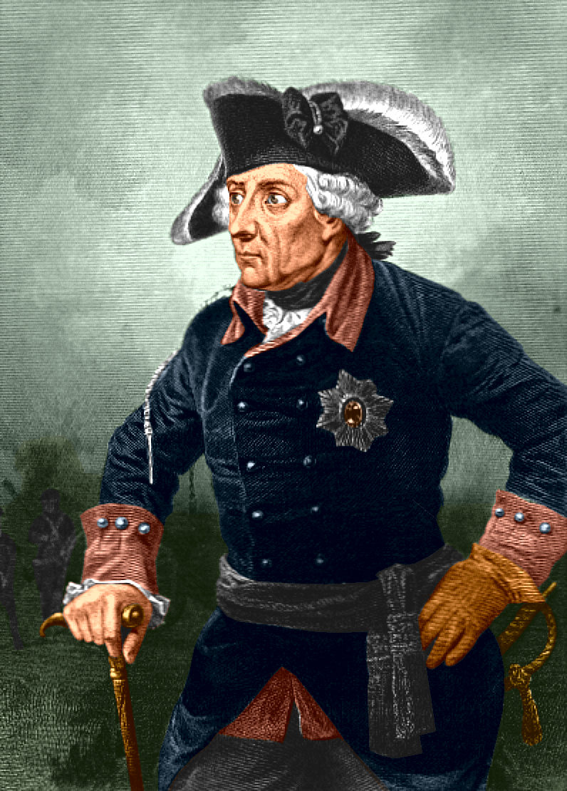 Frederick II of Prussia in Waffenrock (dress tunic).